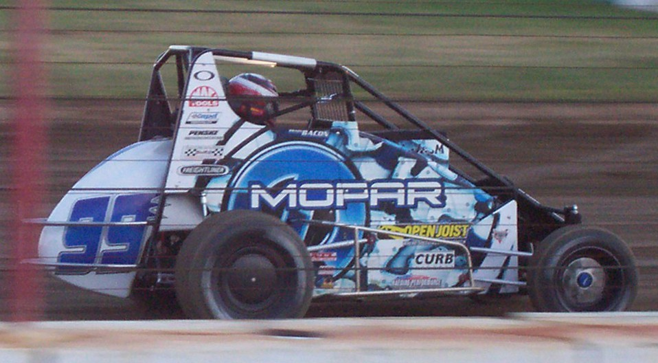 The USAC Midget car of Brady Bacon qualifying at the Dodge County Fairgrounds (Wisconsin).